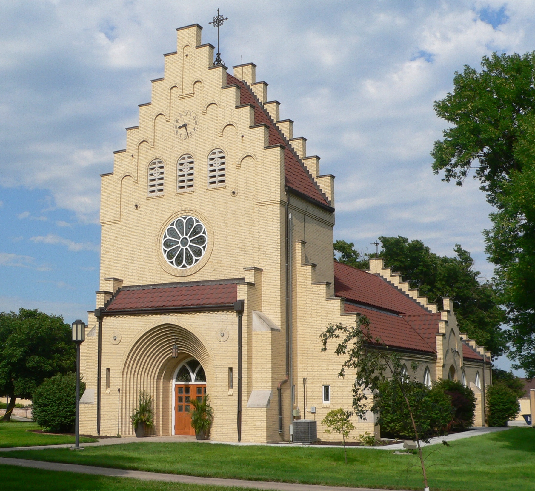 Zion Chapel at Mosaic at Bethphage Village, Axtell, Nebraska; seen from the southwest.